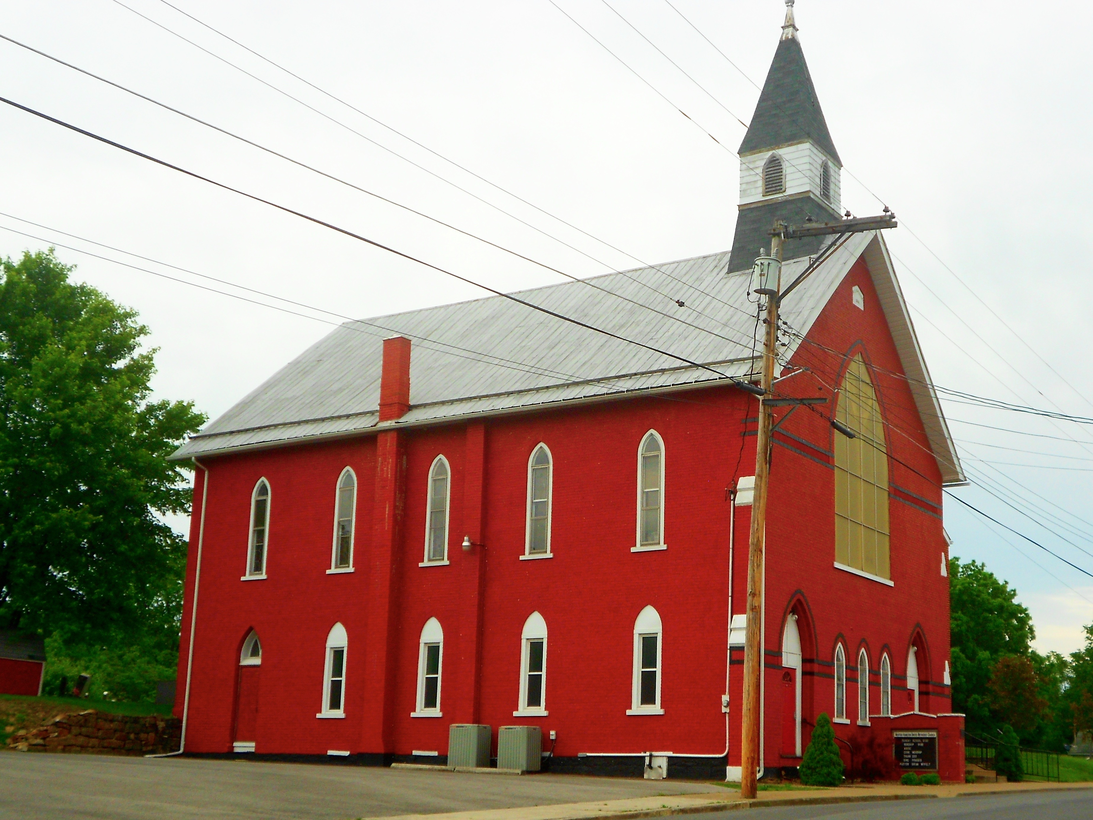 United Methodist Church in Newton Hamilton, Pennsylvania. The date stone reads "ME Church 1881" - presumably referring to the Methodist Episcopal Church